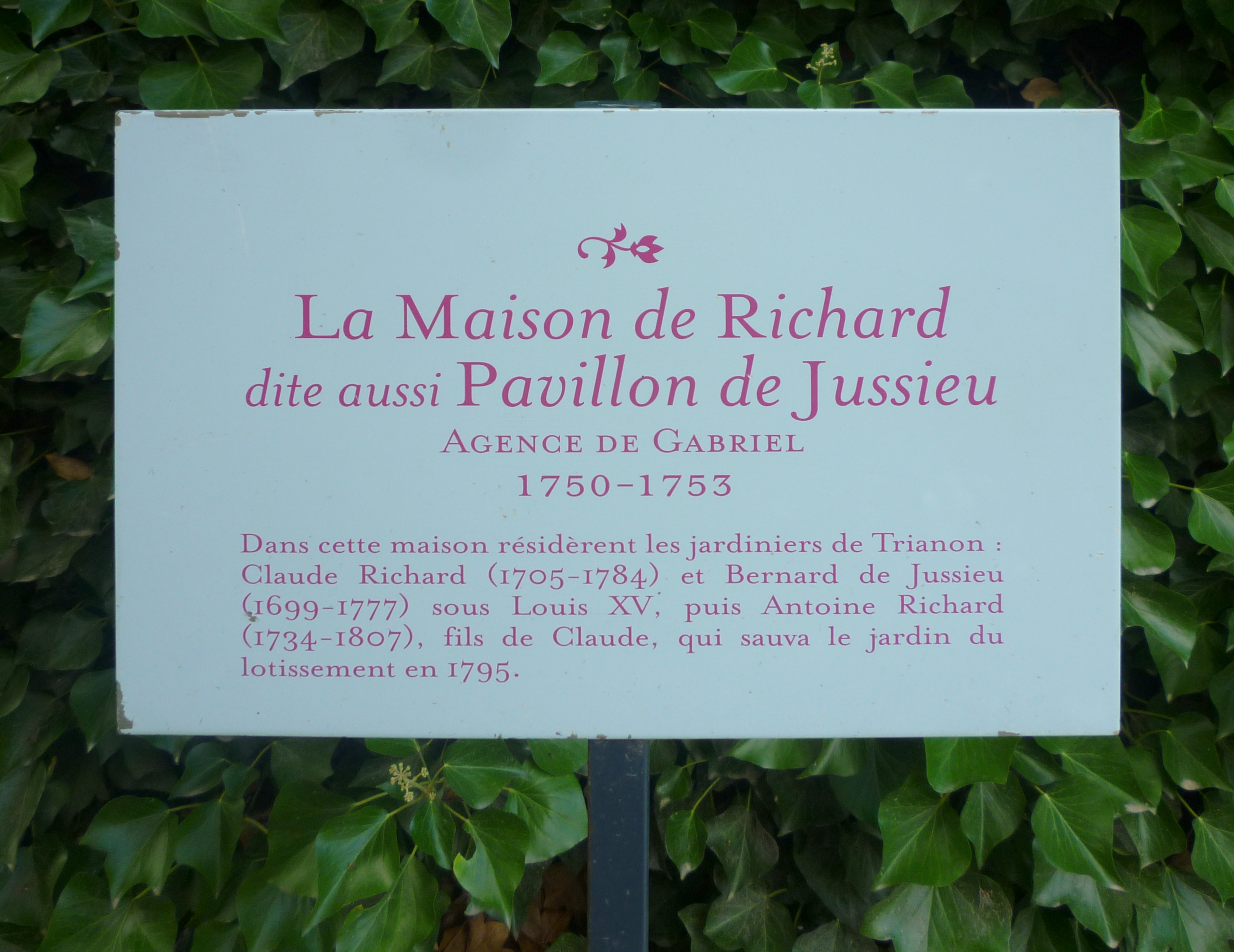 Sign outside Jussieu Pavilion in the gardens of the Palace of Versailles, France